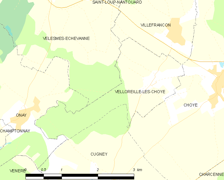 Map of French municipality